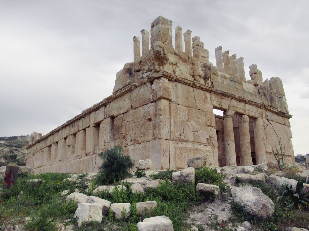 Huge cut stone blocks were used in the construction of 2nd century BC Qasr al-Abd (Palace of the Slave) at Iraq El-Amir, east of Amman, Jordan.